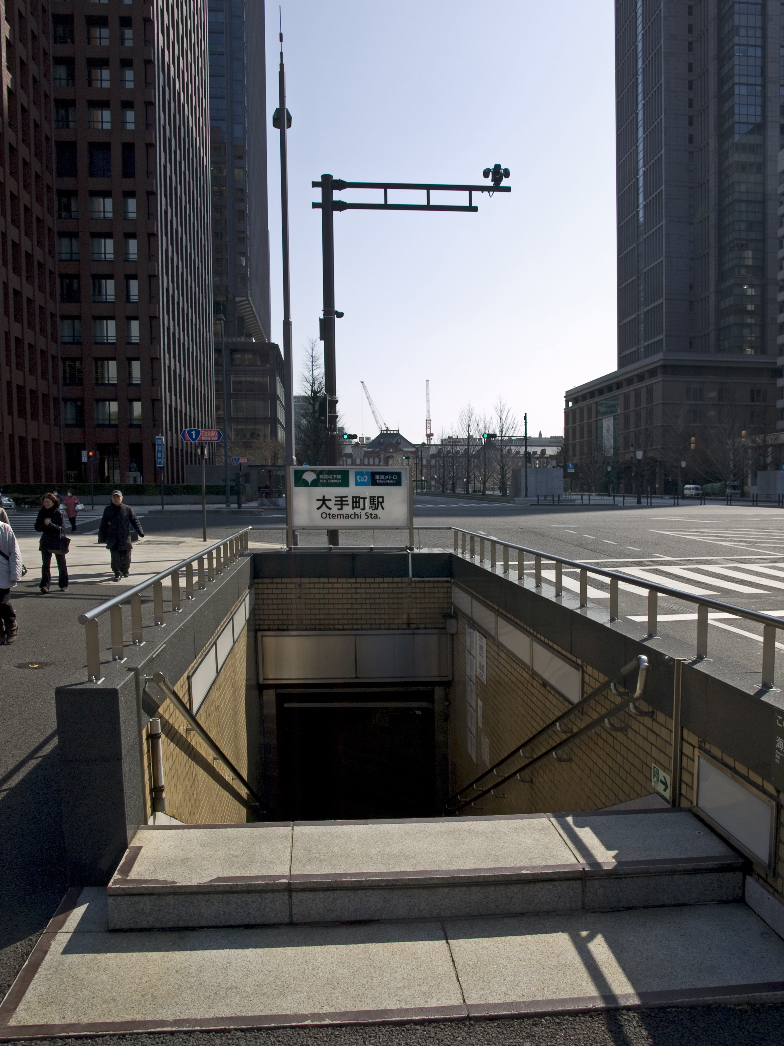 Ōtemachi Station, Tokyo, exit D2, with Tokyo Station in the background